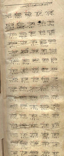 I myself took this picture from Ottoman Archive; so that it doesn't need licence. It is public license